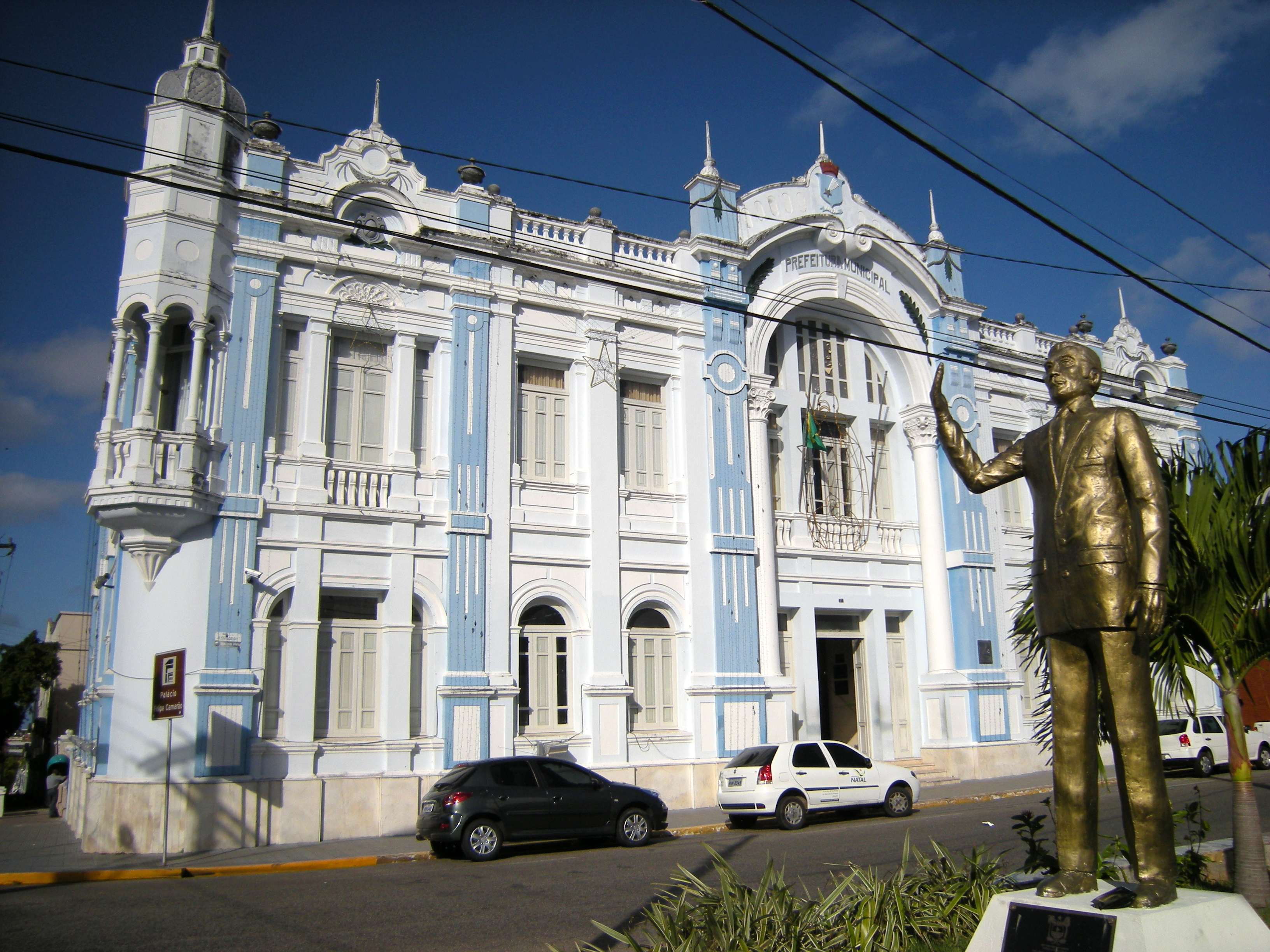 Felipe Camarão Palace, Natal, Brazil.